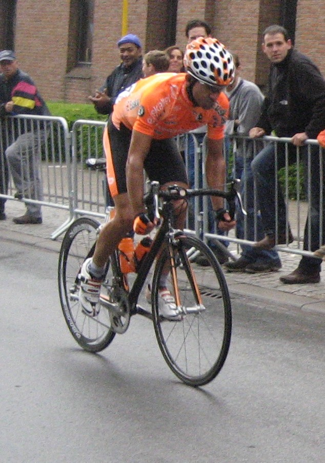 Ruben Perez (Euskaltel) during the second stage of the 2007 Tour de France.